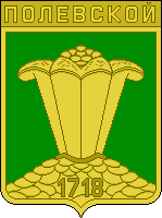 The old coat of arms of Polevskoy, featuring the Stone Flower from Pavel Bazhov's tale.